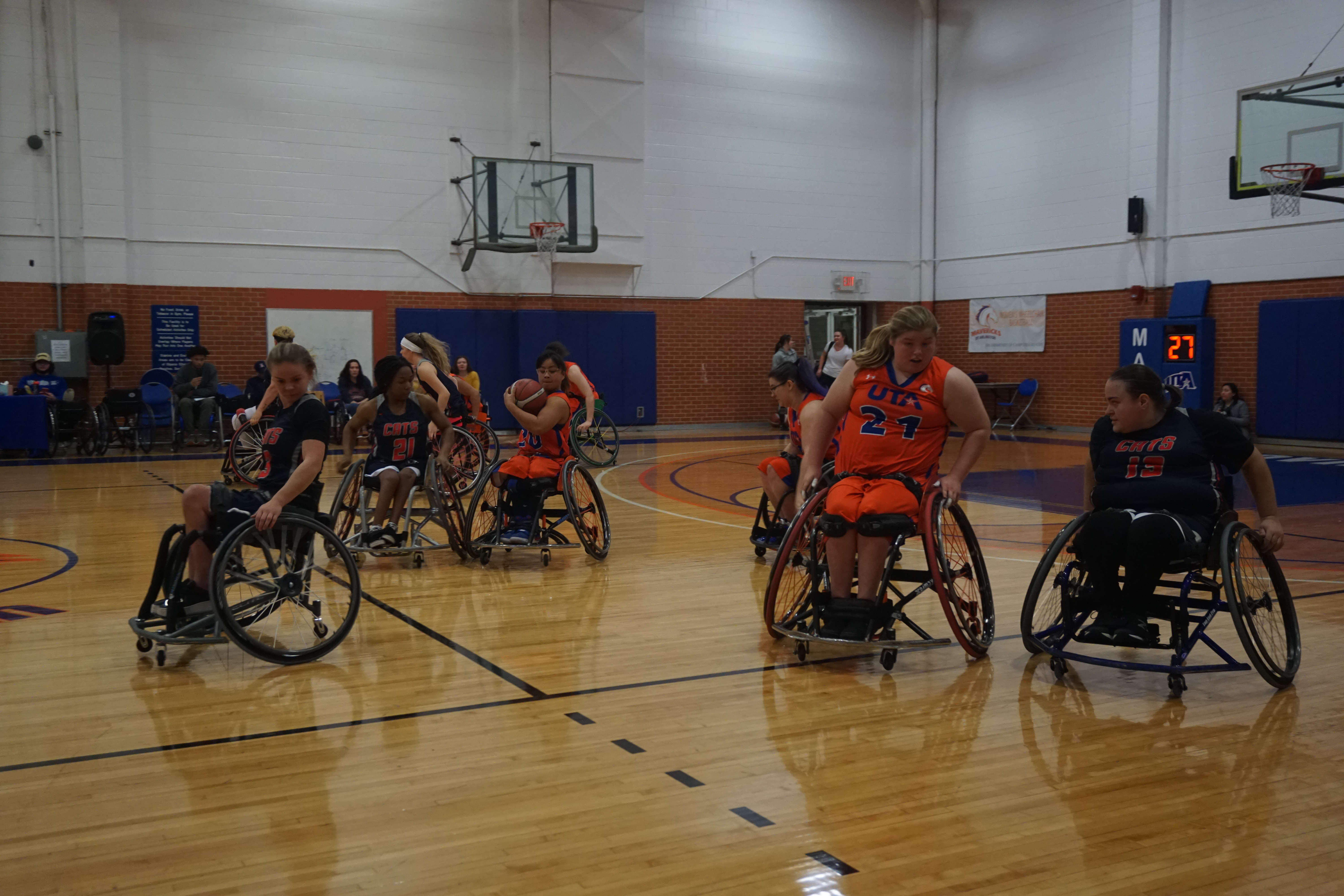 In-game action during the Arizona Wildcats vs. UT Arlington Mavericks women's wheelchair basketball game at the Physical Education Building on the campus of the University of Texas at Arlington in Arlington, Texas (United States). UT Arlington won 64–45.